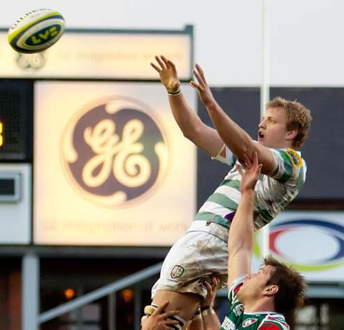 Jamie Gibson (London Irish) and Brett Deacon (Leicester Tigers) compete at a line-out during an LV= Cup pool match at Welford Road, Leicester on Sunday 18th November 2012.